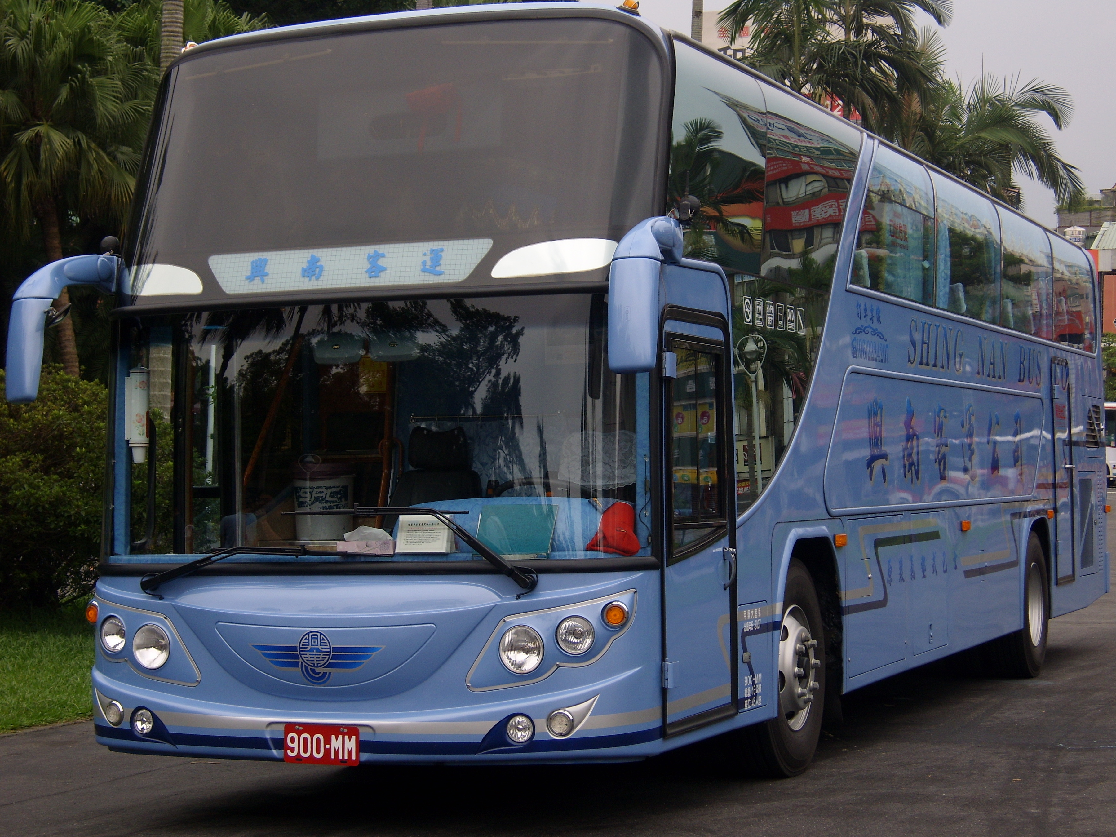 A brand new EU 4th issue chassied tour bus (HINO RN) is operated by Shing Nan Bus.